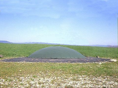 Moving of the turret from block 3 at Ouvrage Schoenenbourg